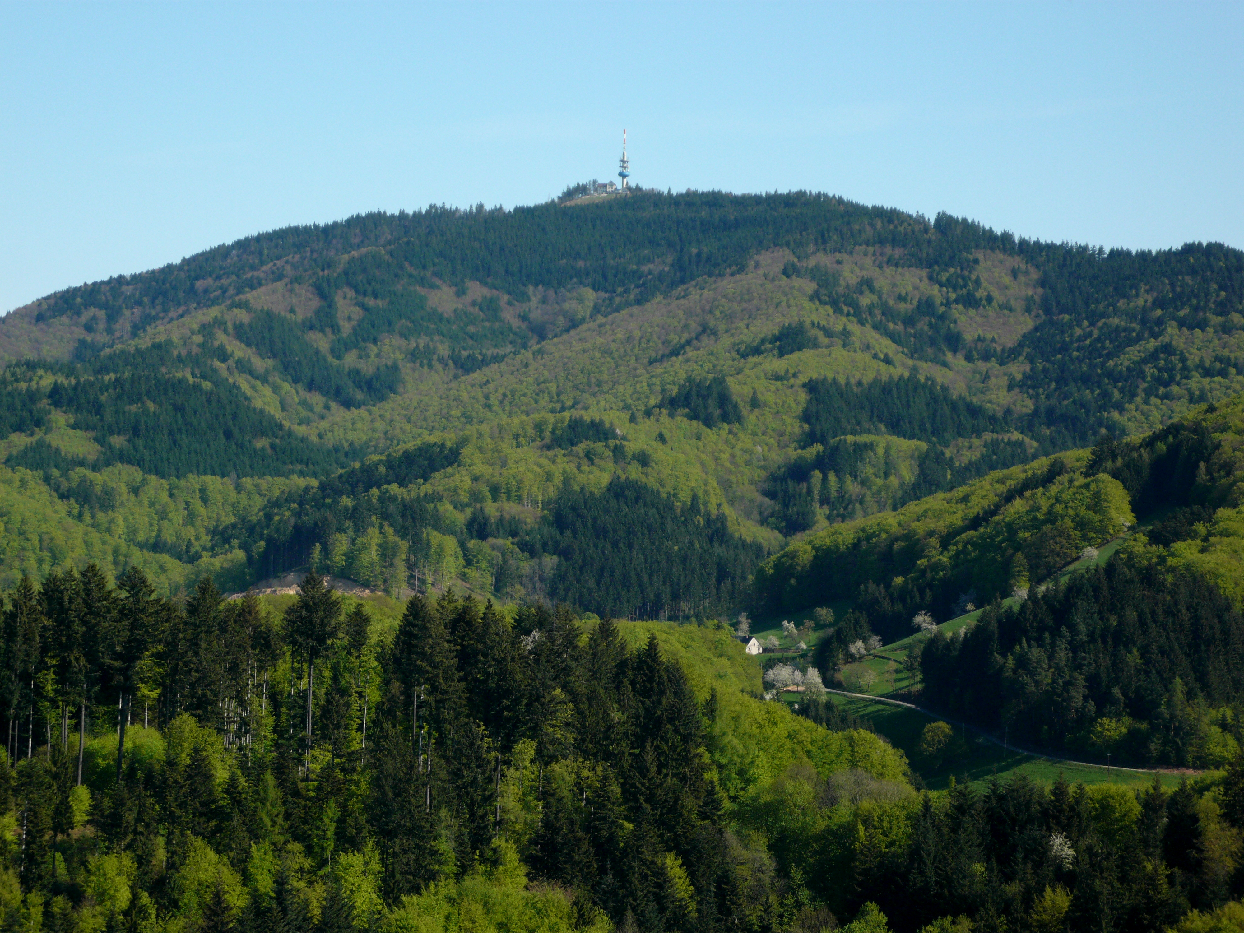 Hochblauen seen from South